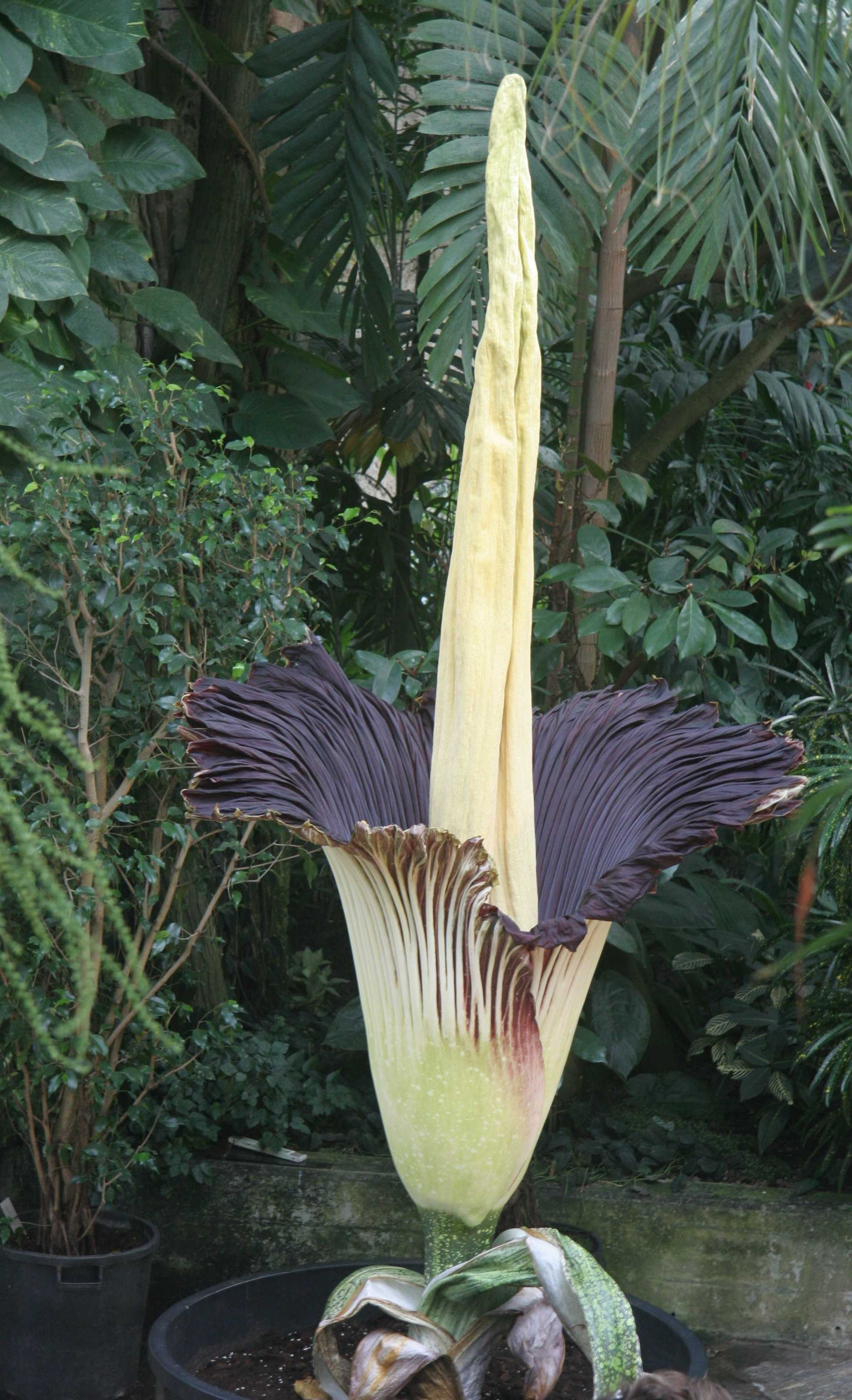 Description: Amorphophallus titanum in der Wilhelma, zoologisch-botanischer Garten Stuttgart Source: taken by Lothar Grünz Date: October 20, 2005